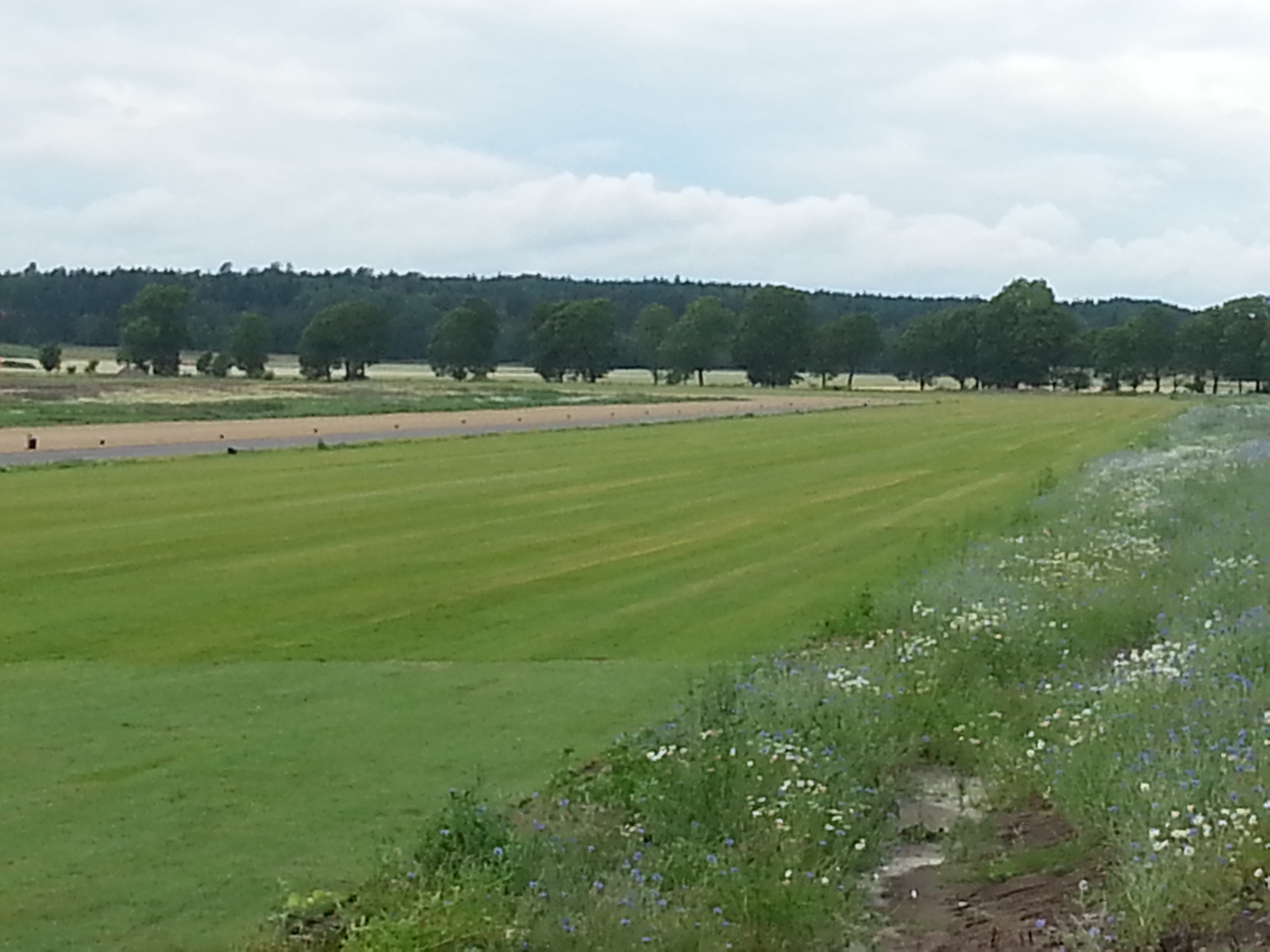 Bro Park- upploppsrakan- juli 2015